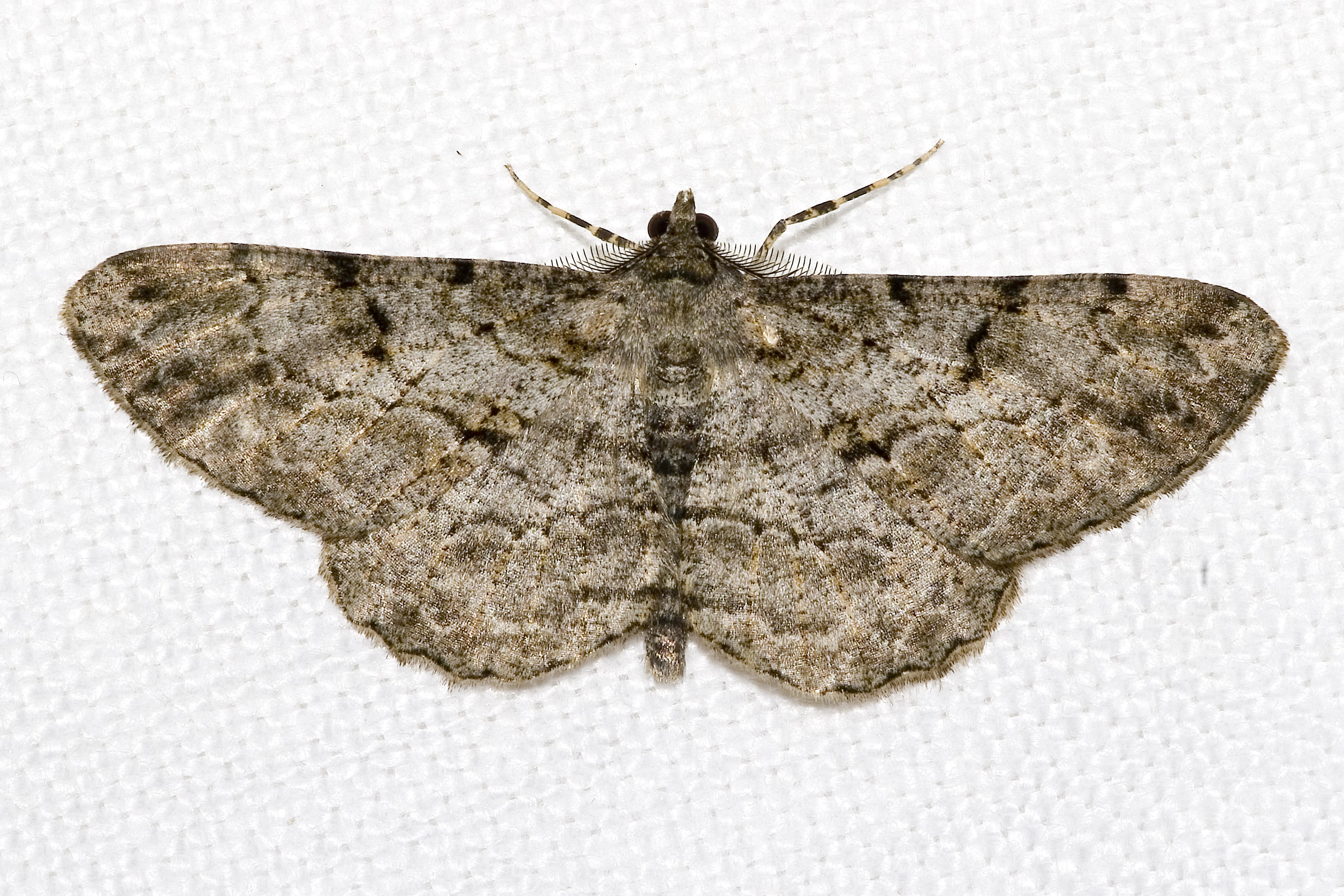 Willow Beauty, Peribatodes rhomboidaria (Denis & Schiffermüller, 1775), Many thanks to Carola Winzer and Thomas Fähnrich for determination!